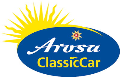 logo Arosa ClassicCar race in Switzerland